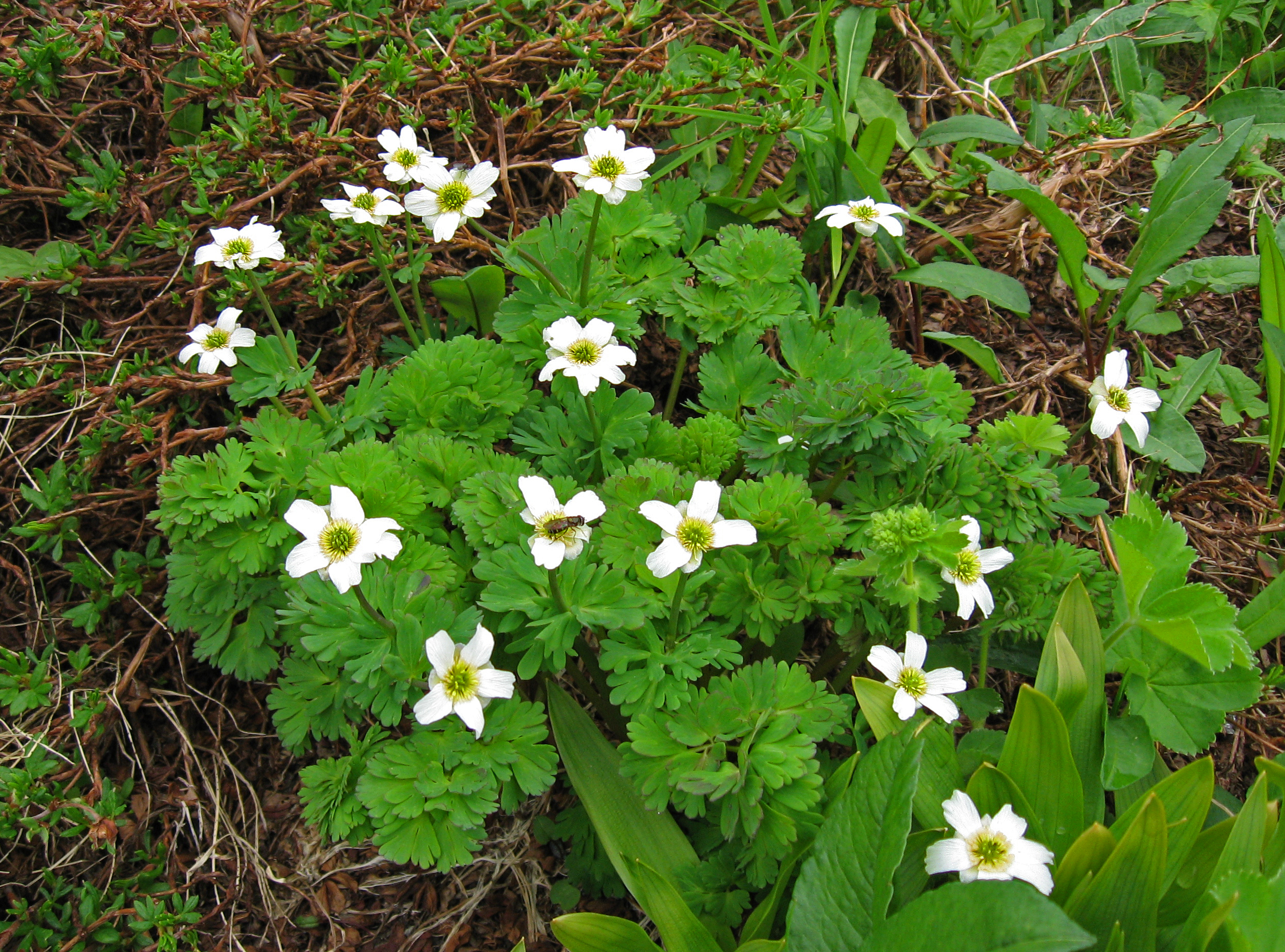 Callianthemum hondoense